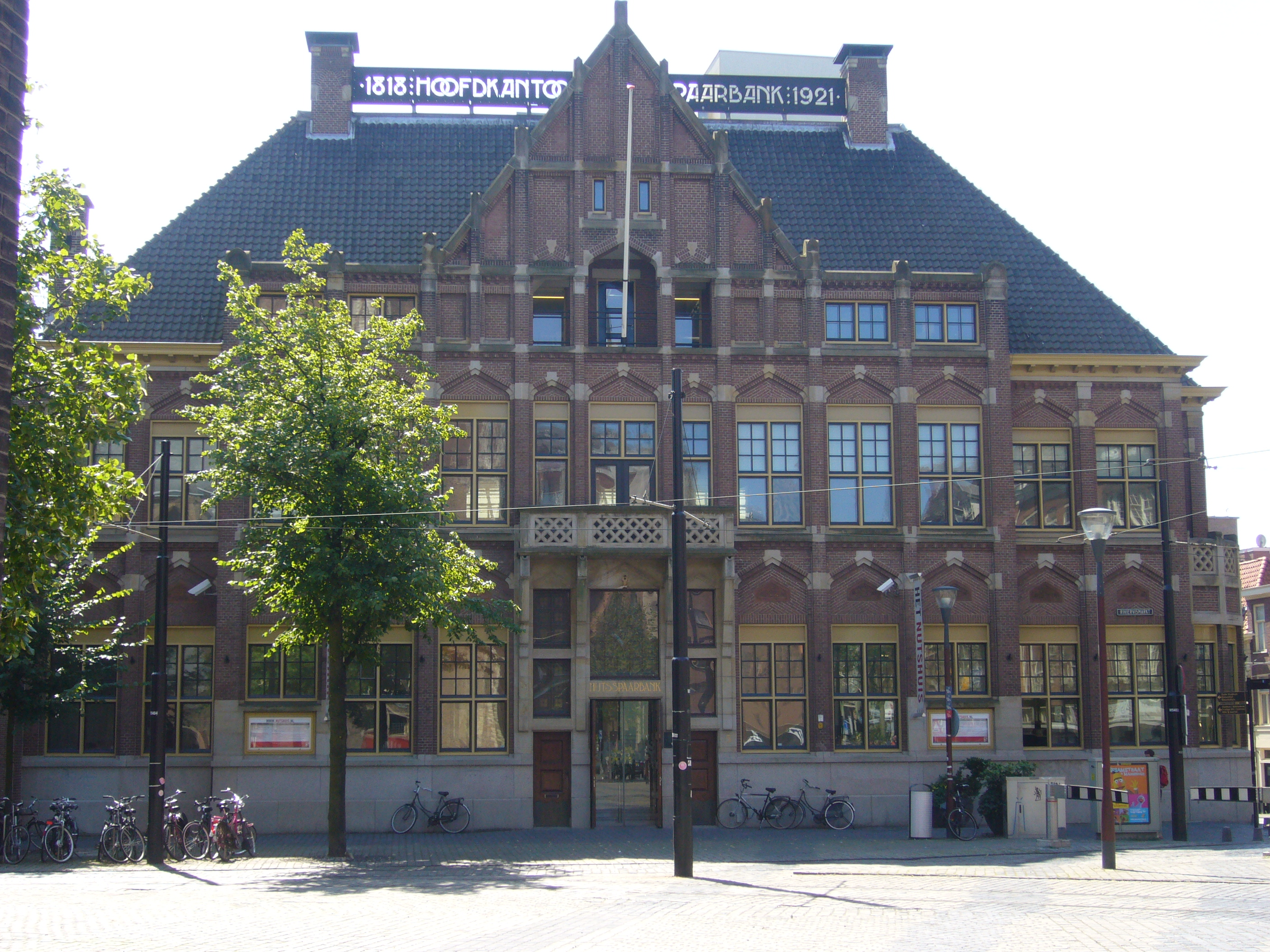 Nutshuis, former HQ of the Nutsspaarbank in Tha Hague, Holland